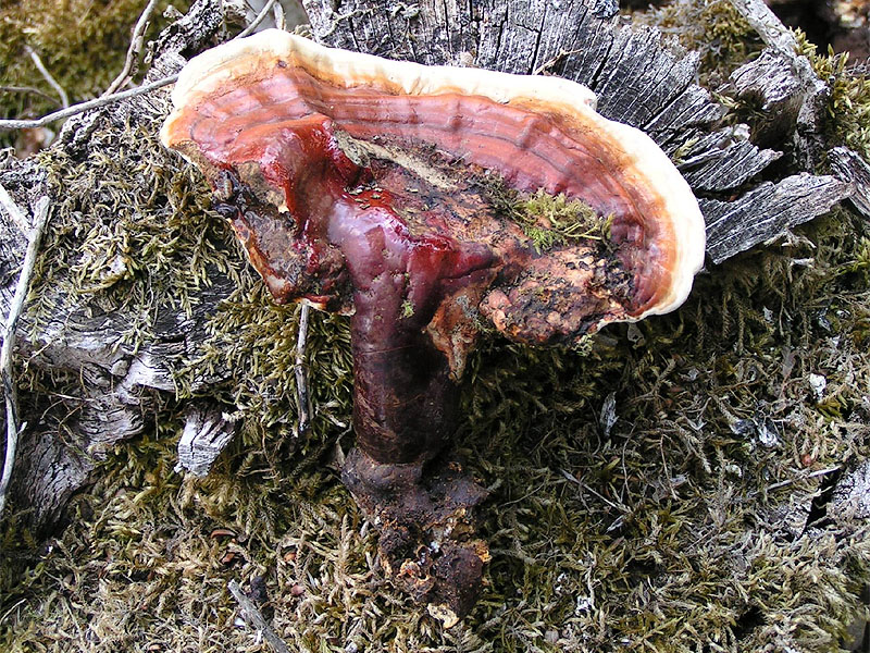 Lingzhi or Reishi